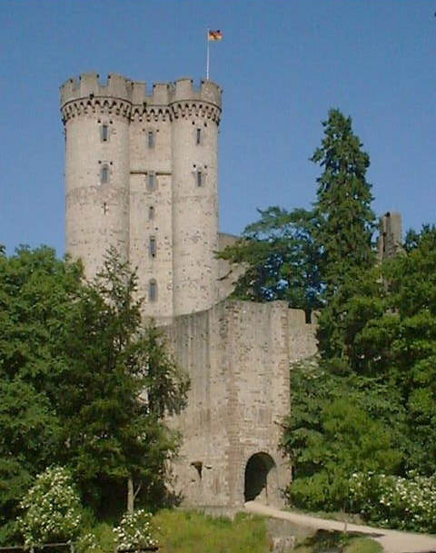 Kasselburg - gate and keep